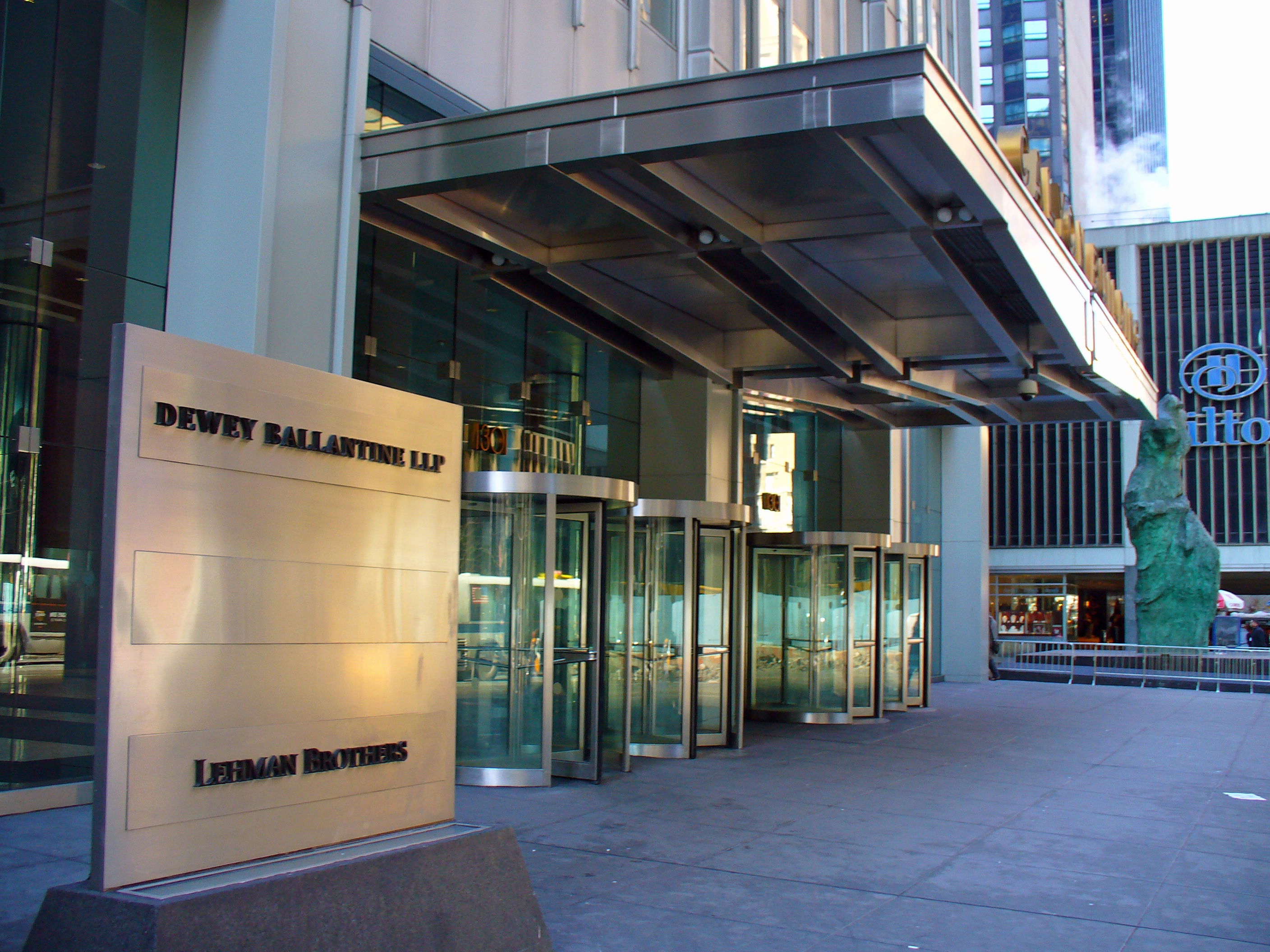 Calyon Building Dewey Ballantine HQ, 1301 Avenue of Americas, New York by David Shankbone